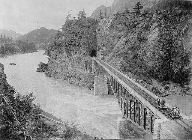 C.P.R. (Canadian Pacific Railway) bridge over Fraser River south of Lytton, British Columbia.